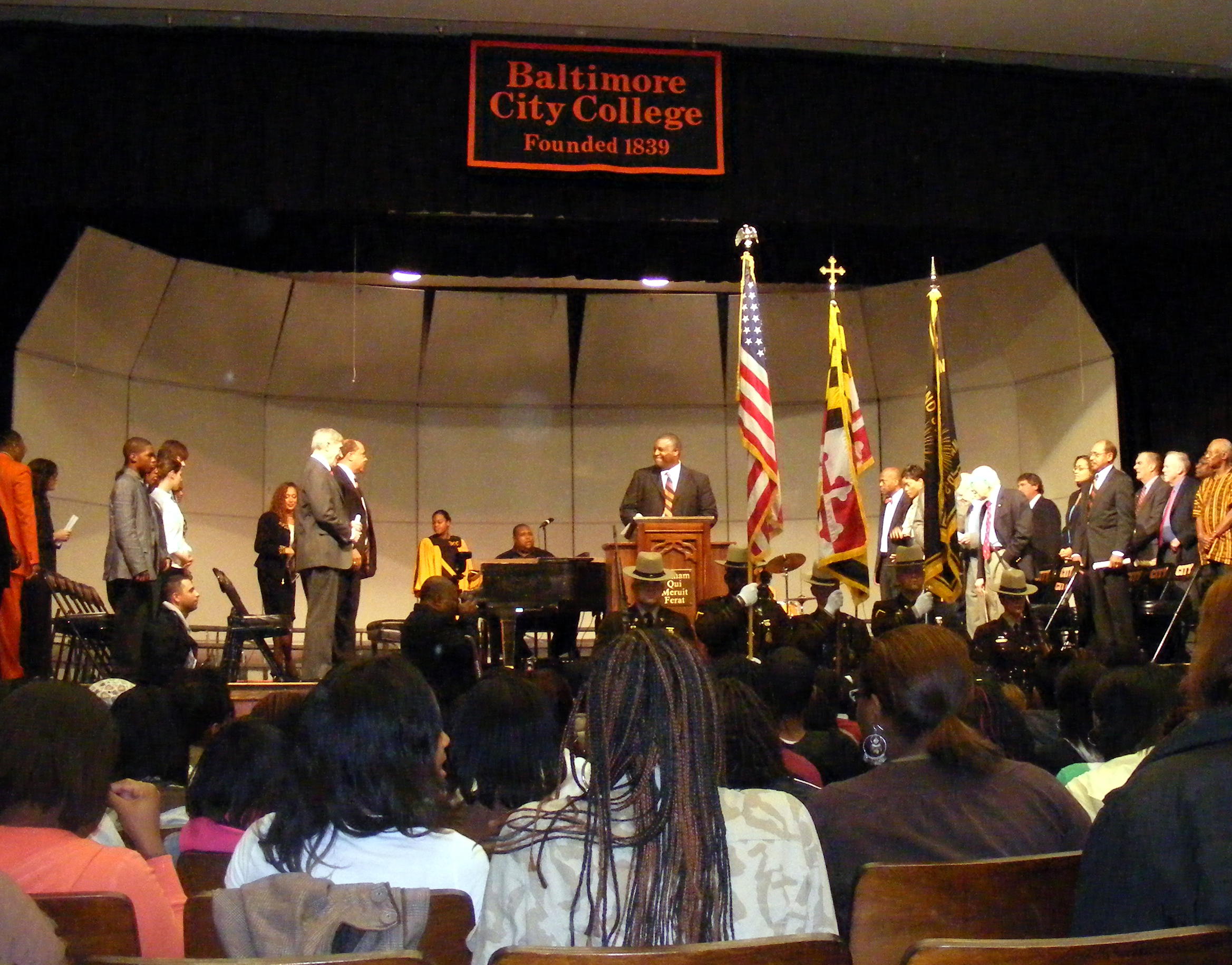 I took this picture 10-26-07